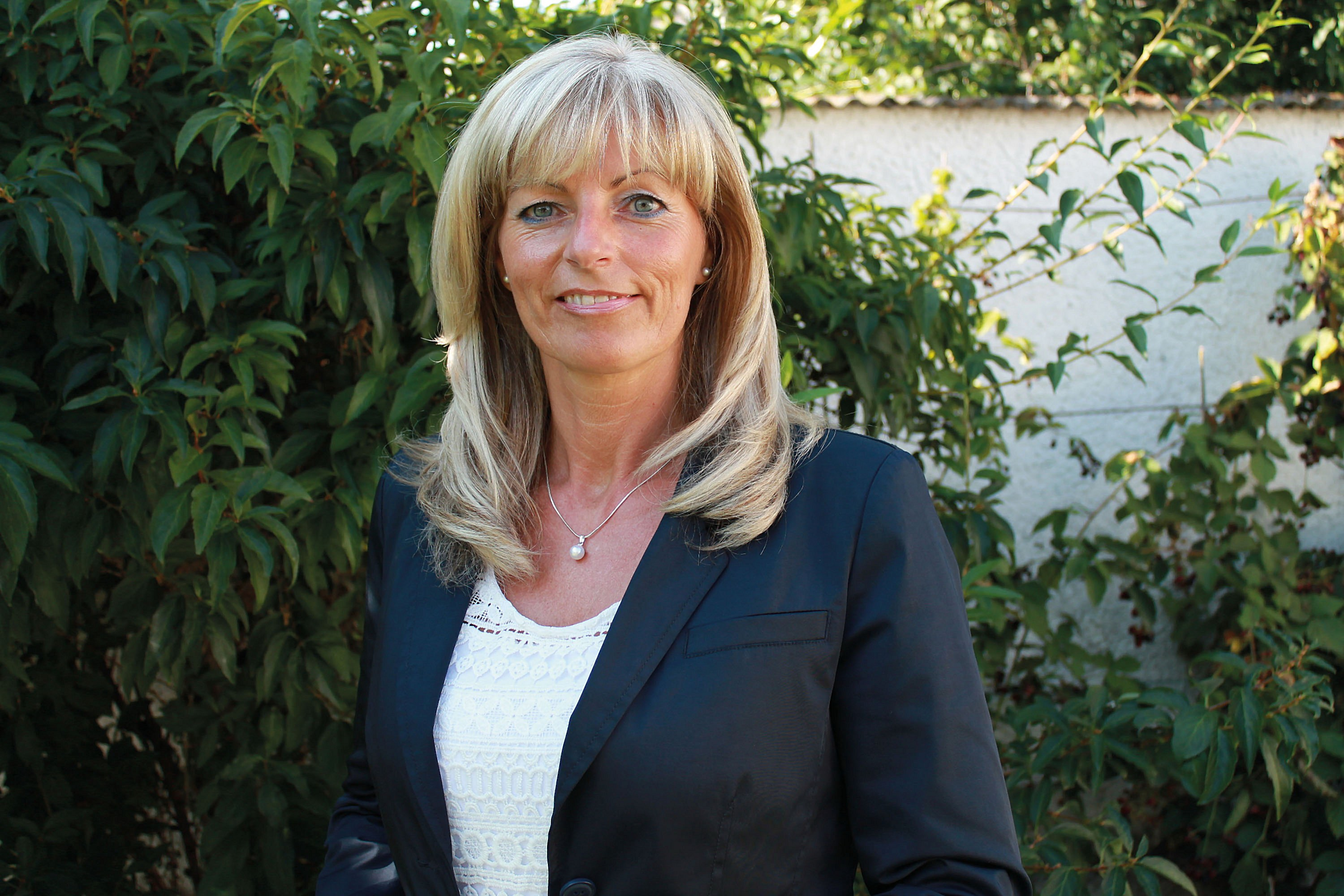 Neusiedl am See - Major Elisabeth Böhm